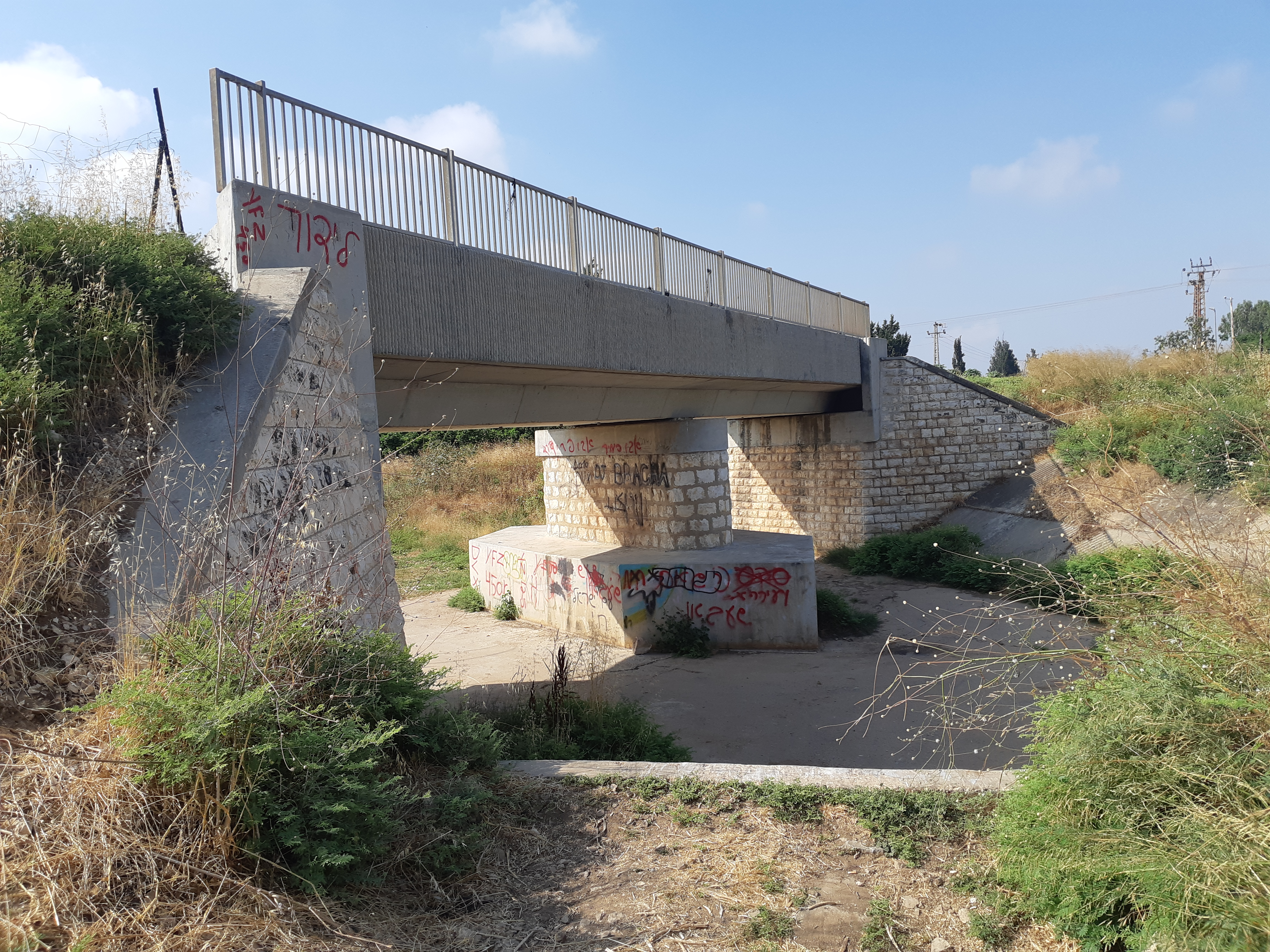 Israel Eastern Railway Bridge on Beit Arif stream